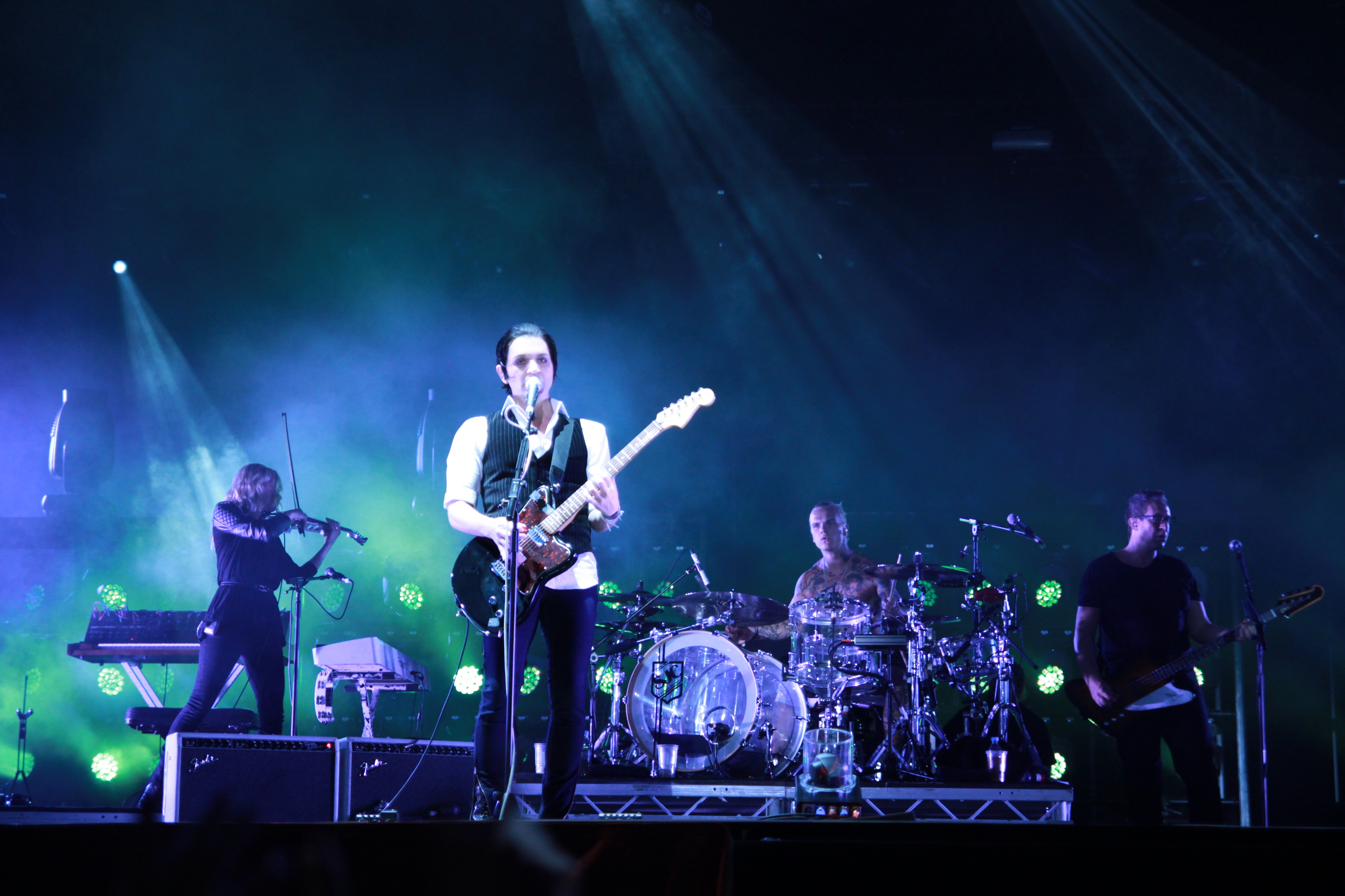 Coke Live Music Festival 2012 at Muzeum Lotnictwa in Cracow. Photo for WAVE Magazine.